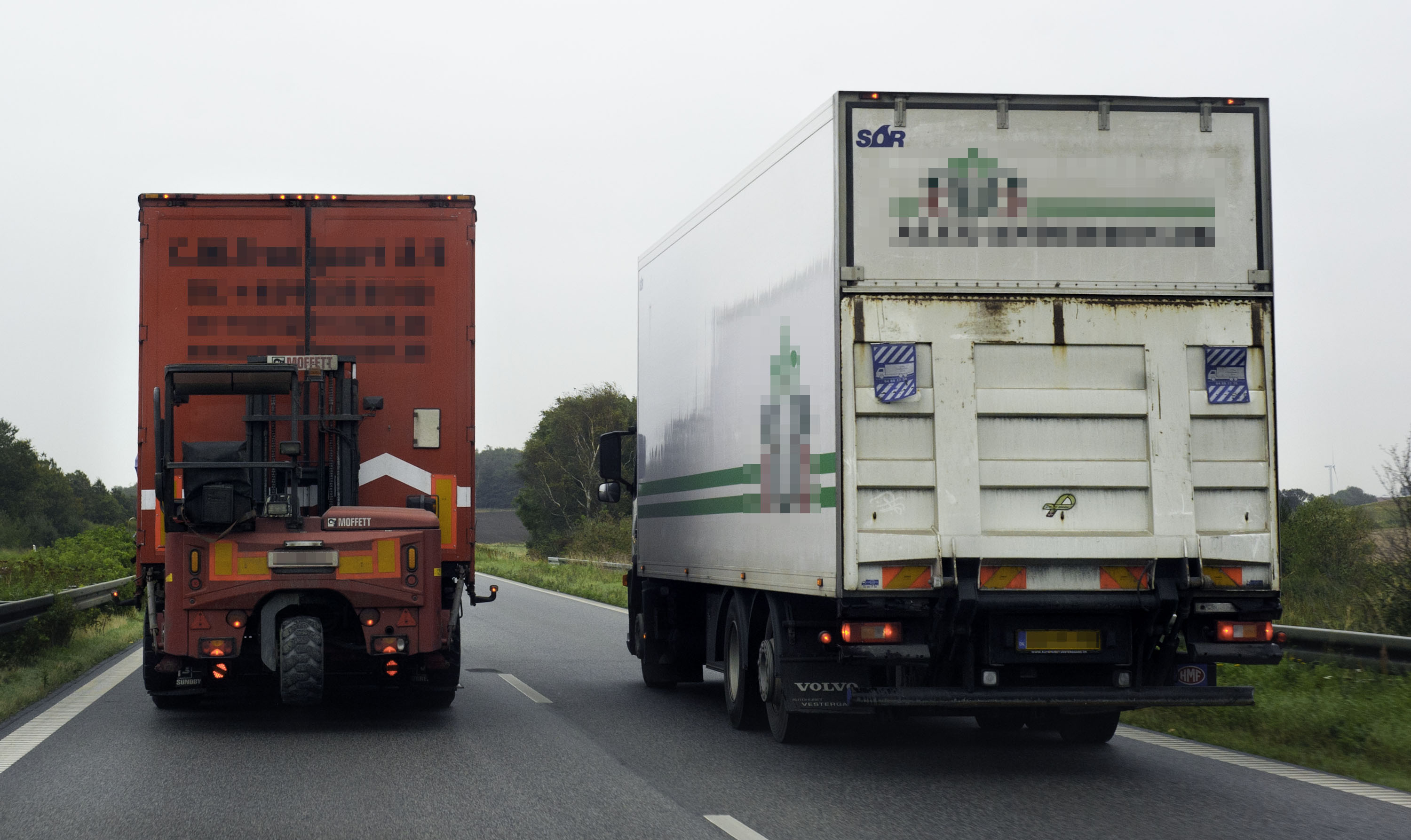 One truck passing another on a Danish motorway. The Danish (and German) term translates literally to elephant raceDansk: Elefantvæddeløb på sjællandske motorvej E20